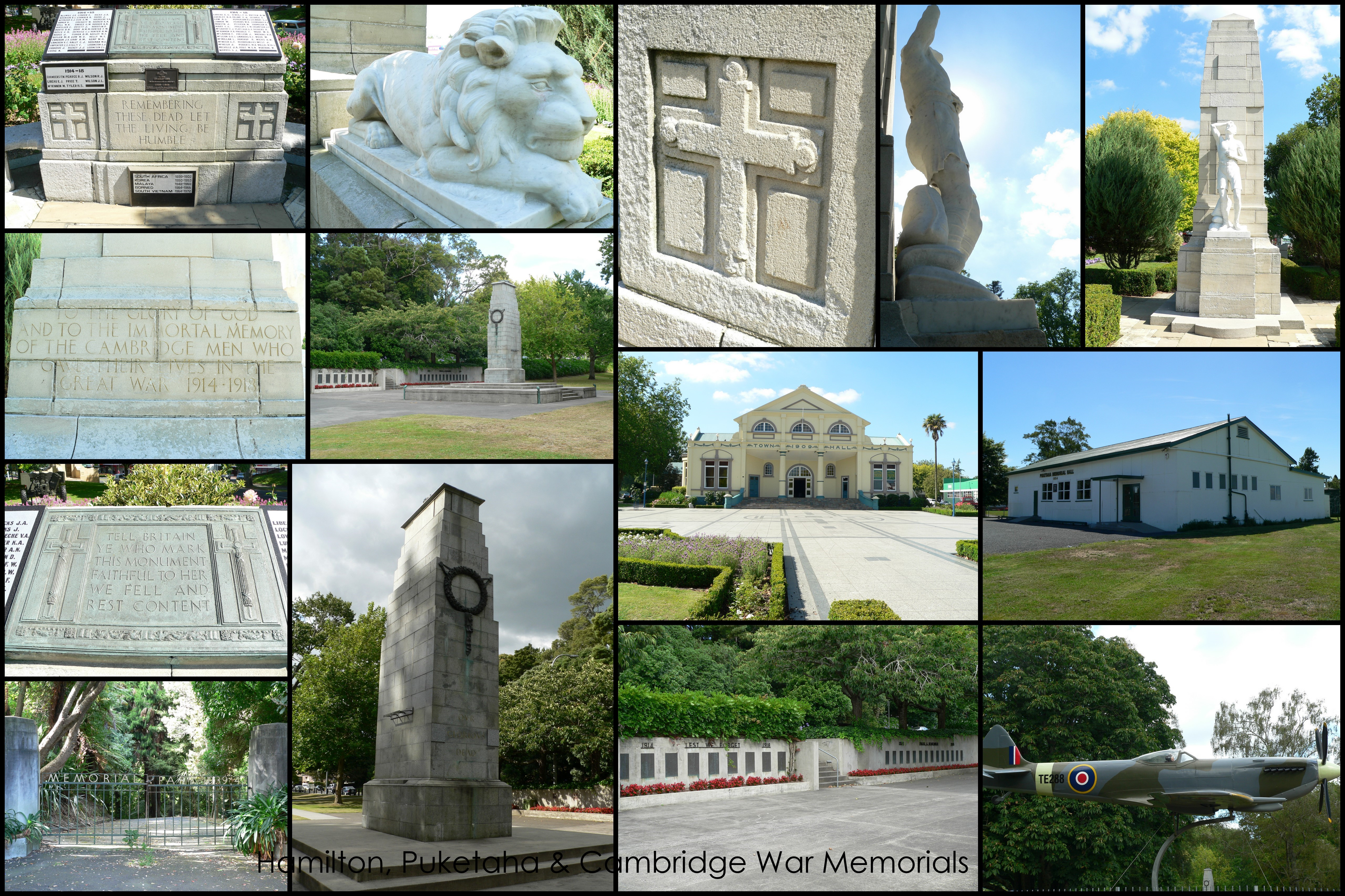 Hamilton Puketaha & Cambridge war memorials, including the Cambridge World War One Memorial, NZHPT registration number 4186 (Category II)